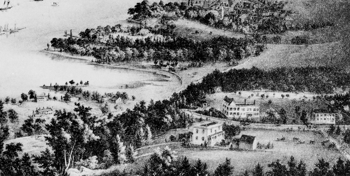 excerpt of Mountain Pavilion from an 1853 sketch of View of New York from over Weehawken, published in 1922 in Old New York, by Henry Collins Brown.